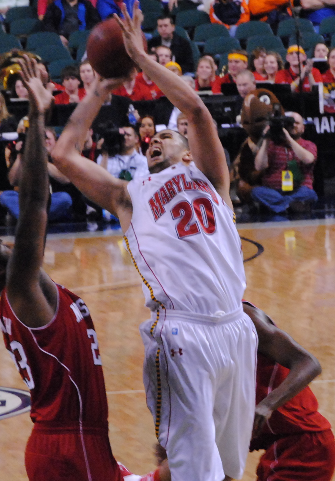 Jordan Williams shoots in the paint